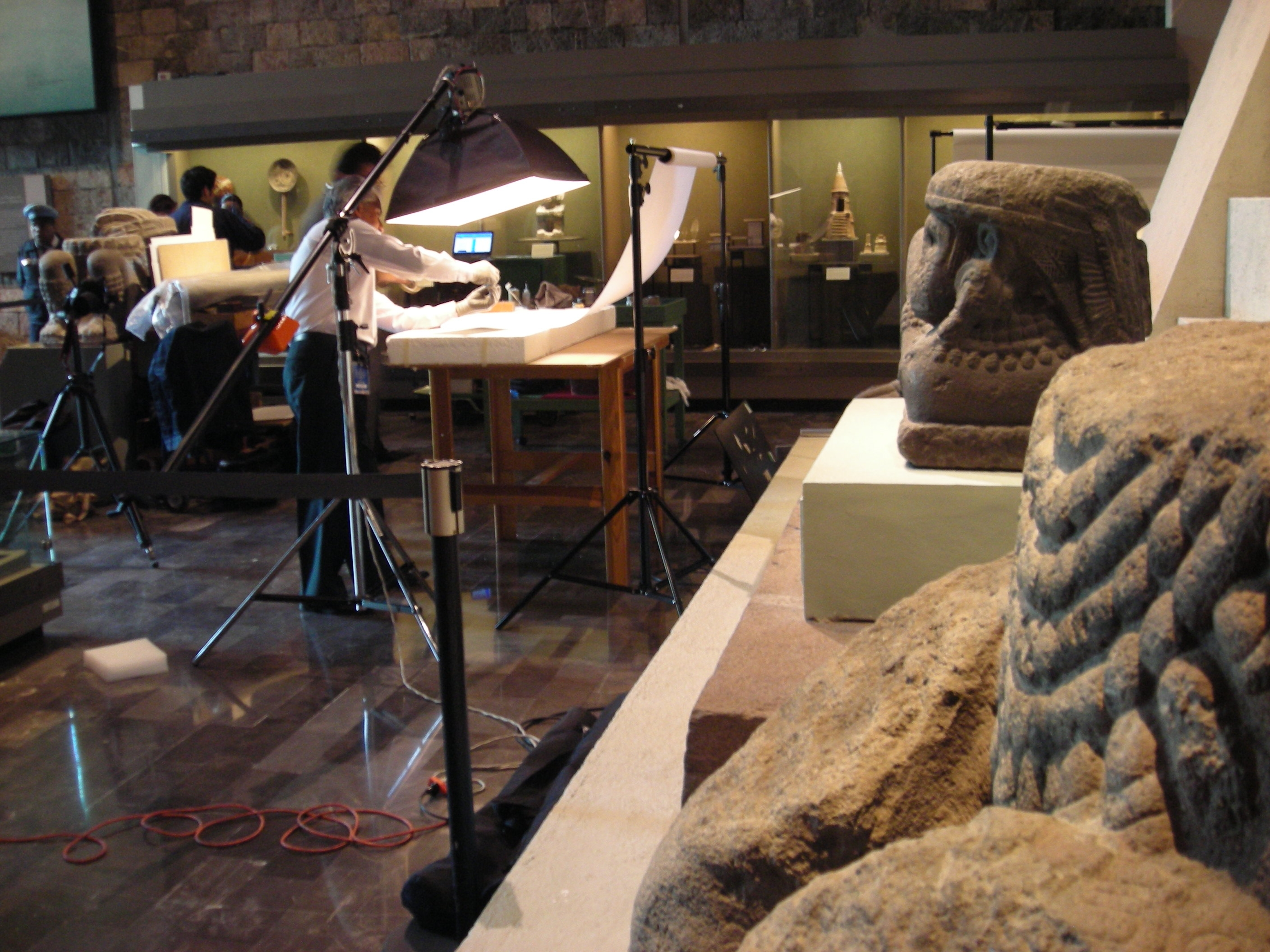 Anthropologists working in the Mexica room of the Museum of Anthropology in Mexico City